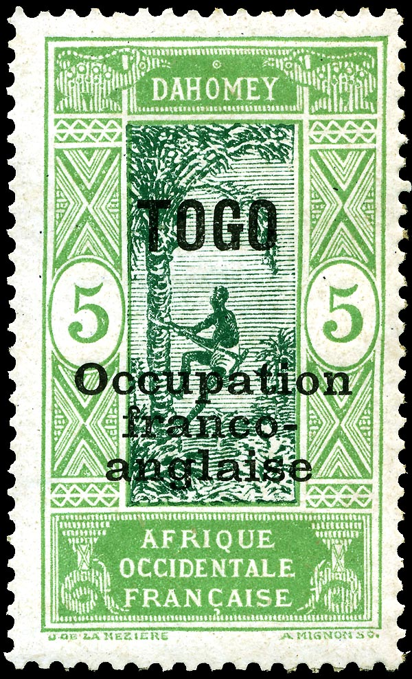 Togo 5c occupation overprint stamp of 1916